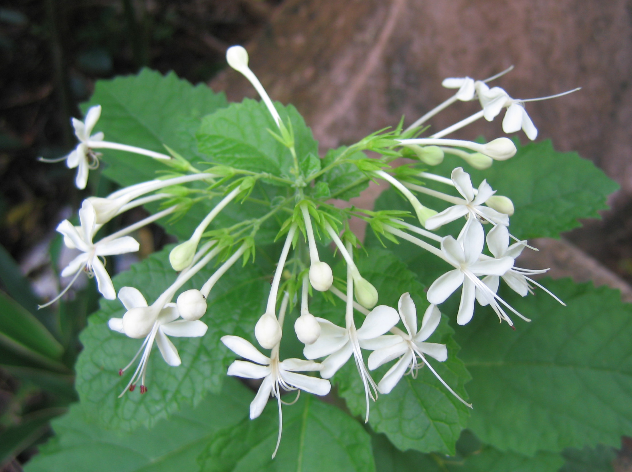 Clerodendrum calamitosum